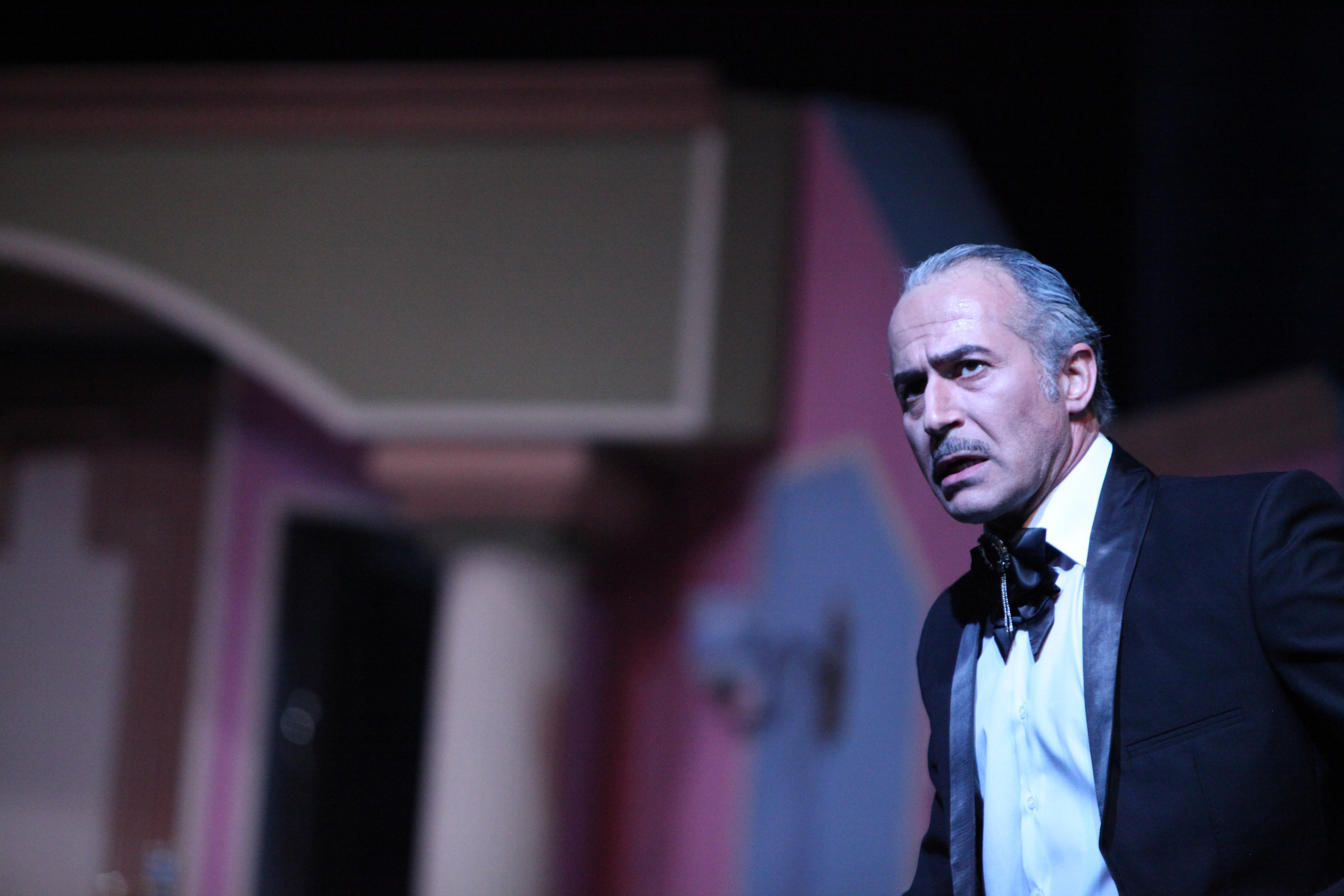 Danial Hakimi performing live on stage - Staircase (2012) Portraying "Bolbol"